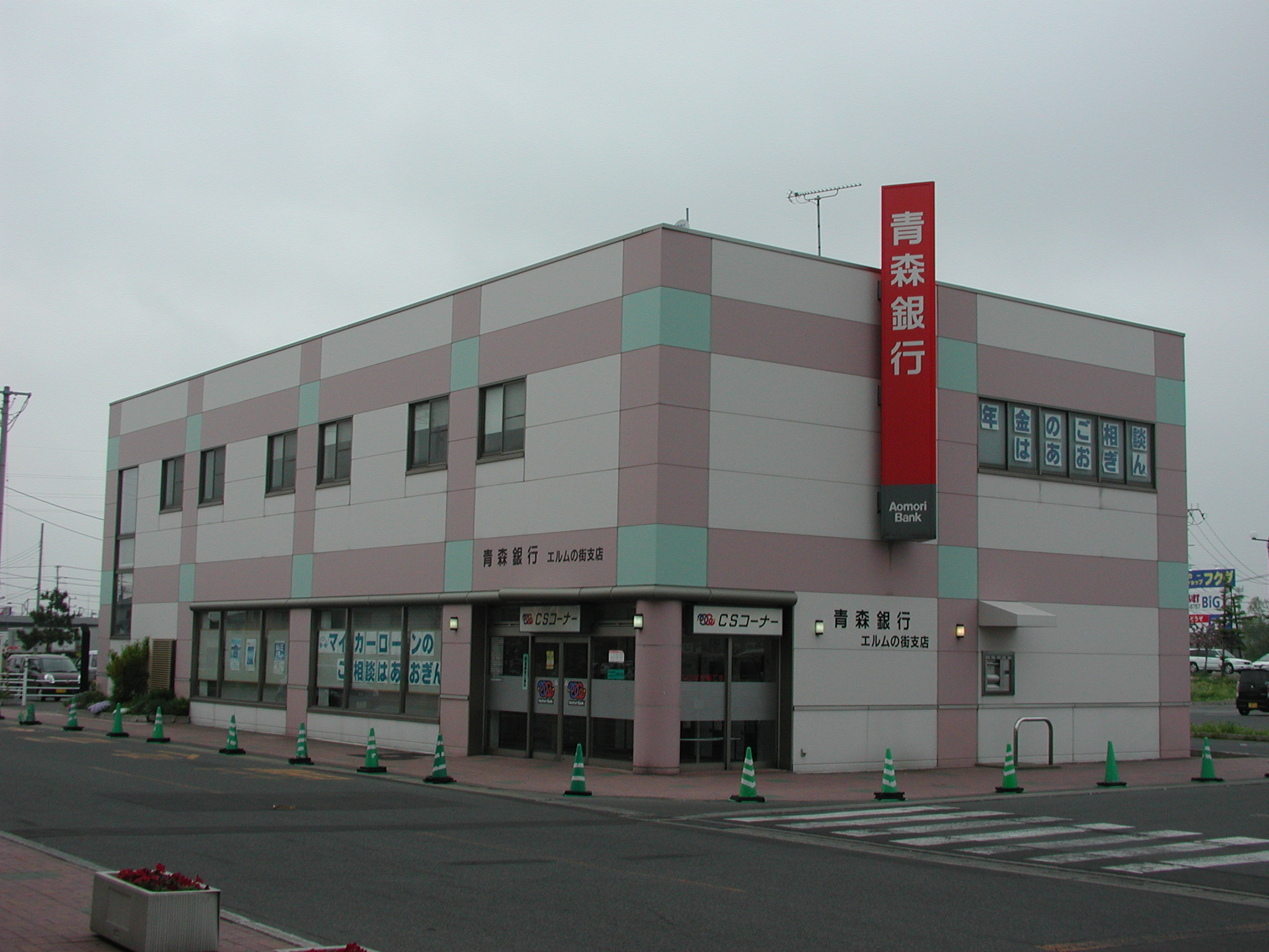 The Aomori Bank, Ltd. ELM no Machi Branch